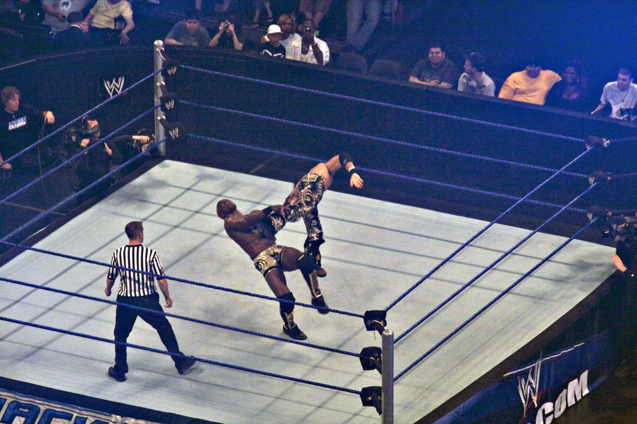 John Morrison performing his signature superkick in shelton benjamin